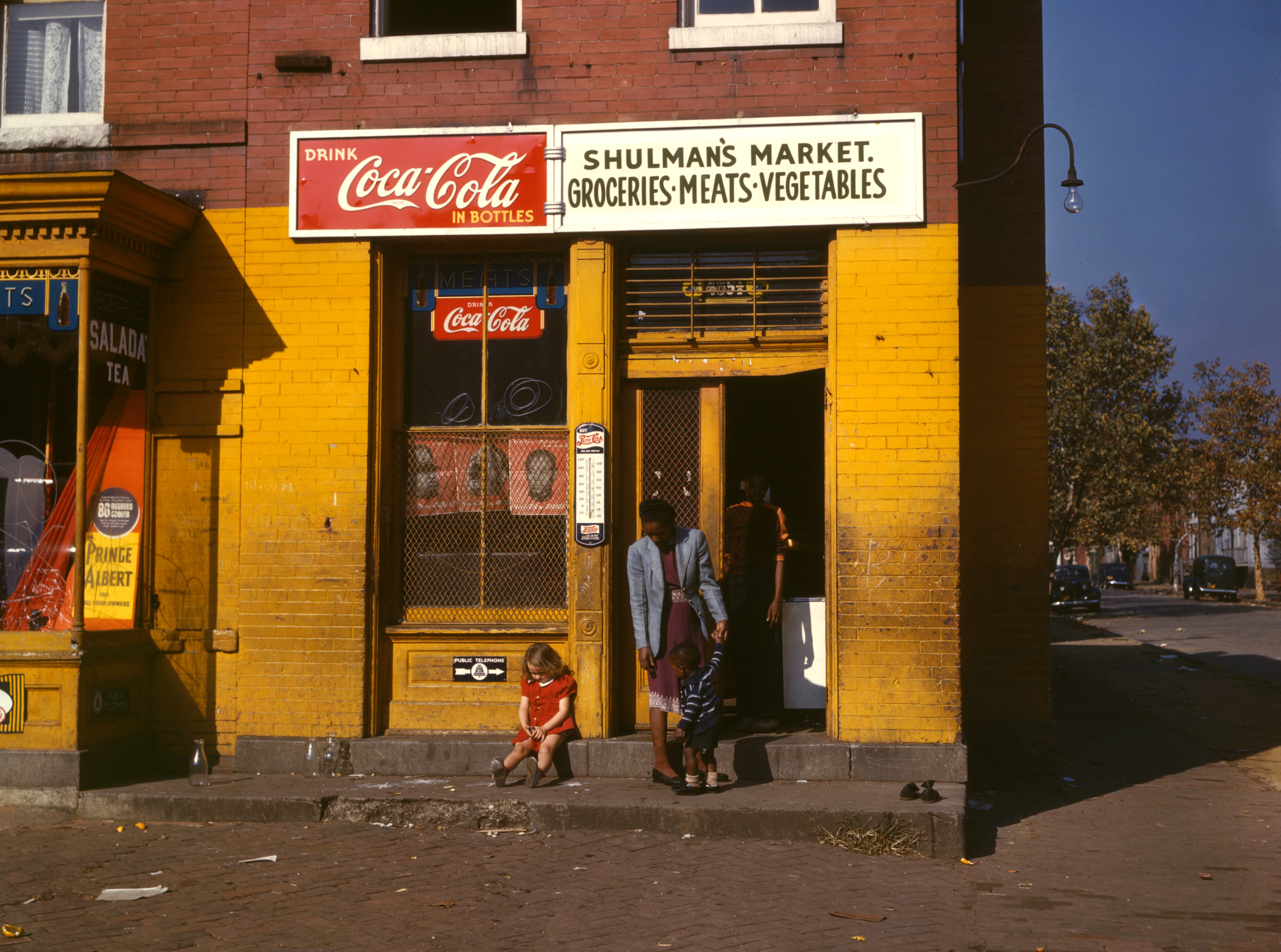 Shulman's Market located at 485 1/2 N Street, SW (corner of N & Union Streets) in Southwest, Washington, D.C. The owner, Harry Shulman (1899-1984), was a Jewish Lithuanian immigrant who operated three grocery stores in Washington, D.C. The market was one of many Jewish-owned businesses once located throughout the Old Southwest neighborhood. Jewish immigrants began moving to SW in the 1840s, followed by Eastern European Jews in the late 1800s. Their community, along with other immigrants and a large African-American population (documented by Gordon Parks), lived in the neighborhood until the mandatory relocation of every resident, done in the name of "slum" clearing, alley dwelling removal, and urban renewal. Called the "Southwest Washington Redevelopment Plan", the majority of buildings in SW were razed, including the one pictured. Here's what the site looks like now. Union Street no longer exists and the surrounding area is occupied by condominium buildings constructed in the 1960s.